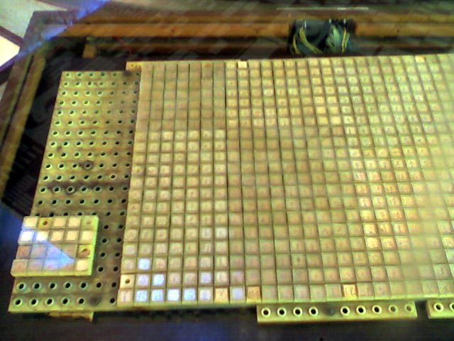 An experimental Chinese keyboard taken at the National Chiao Tung University, Taiwan by myself. -- Toytoy 08:53, Jun 26, 2005 (UTC)